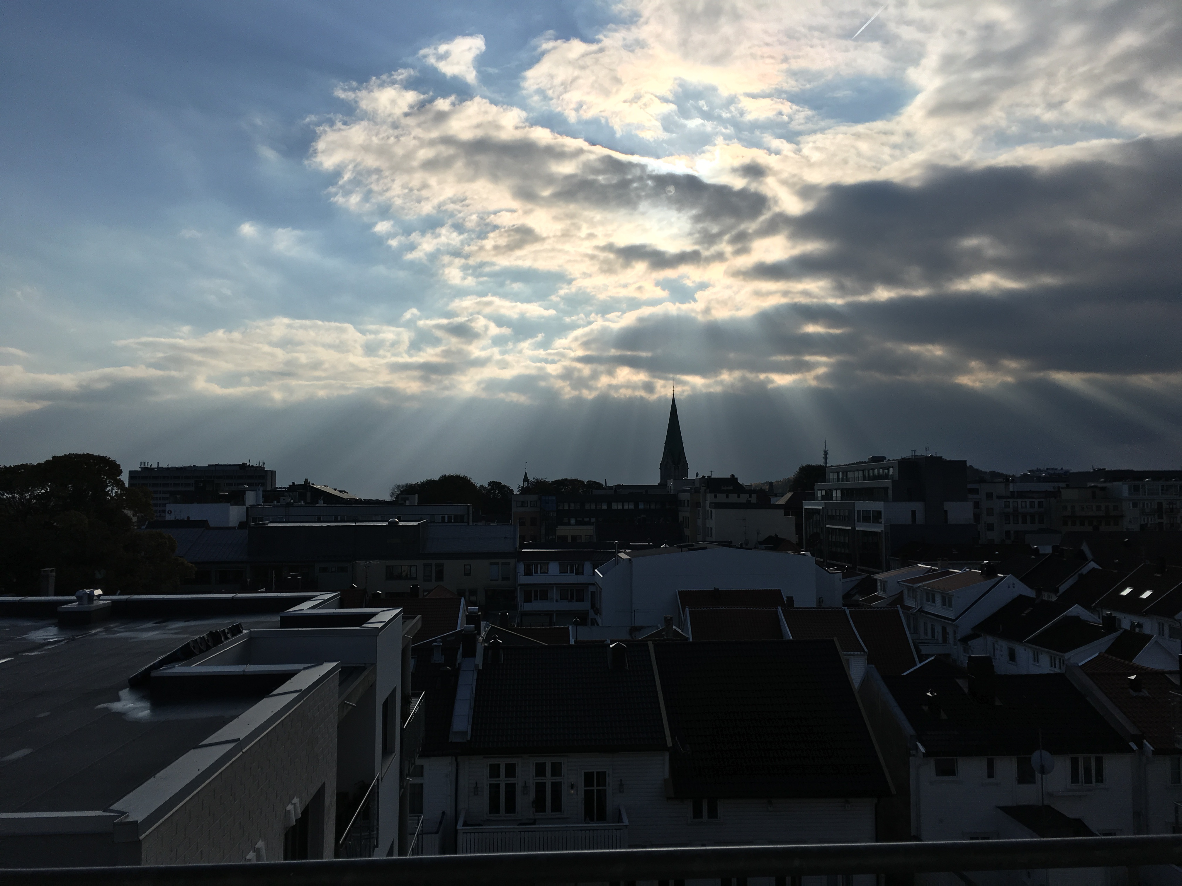 Kvadraturen, Kristiansand